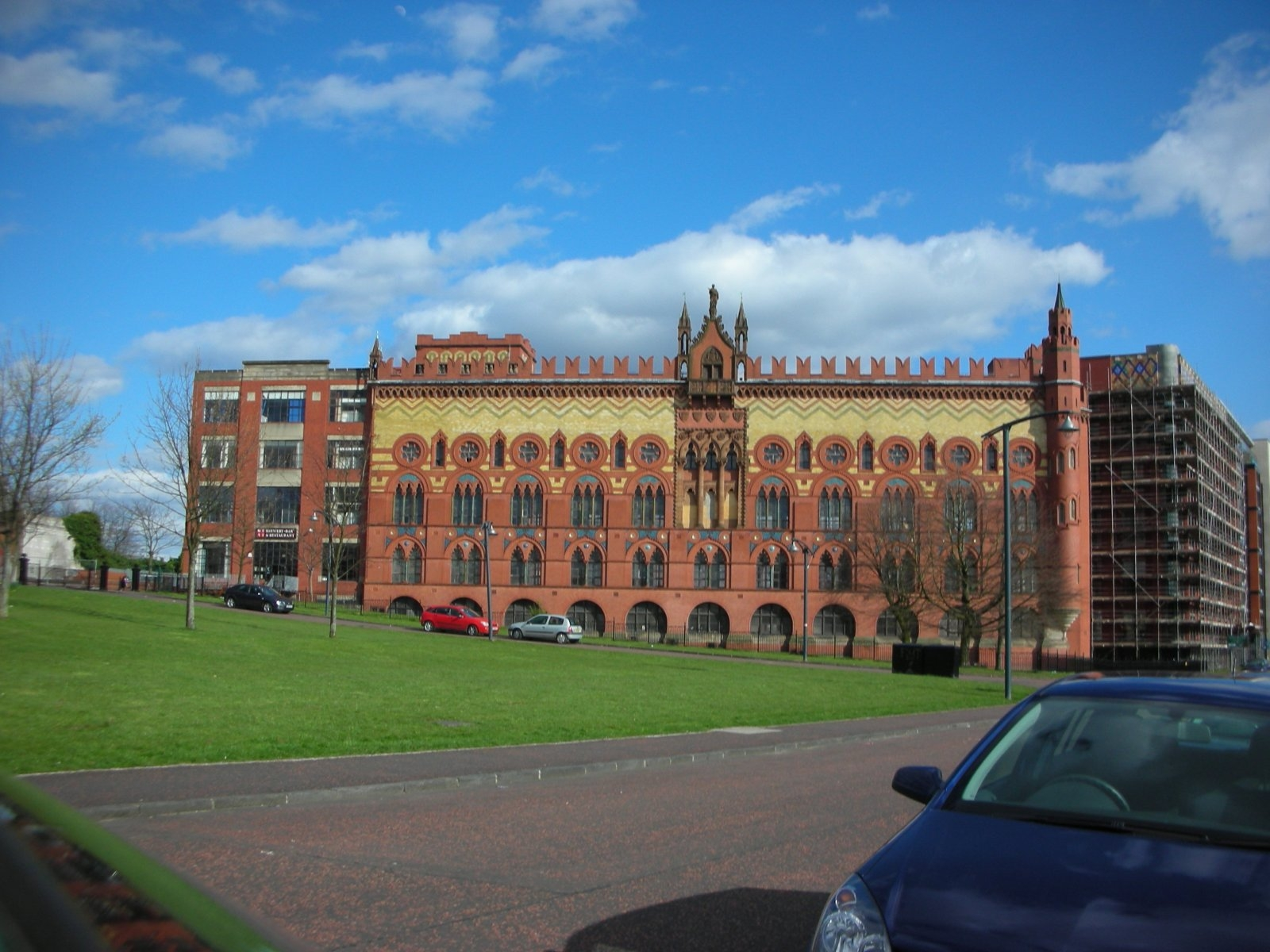 public domain photograph by Andy Nicol, Glasgow.